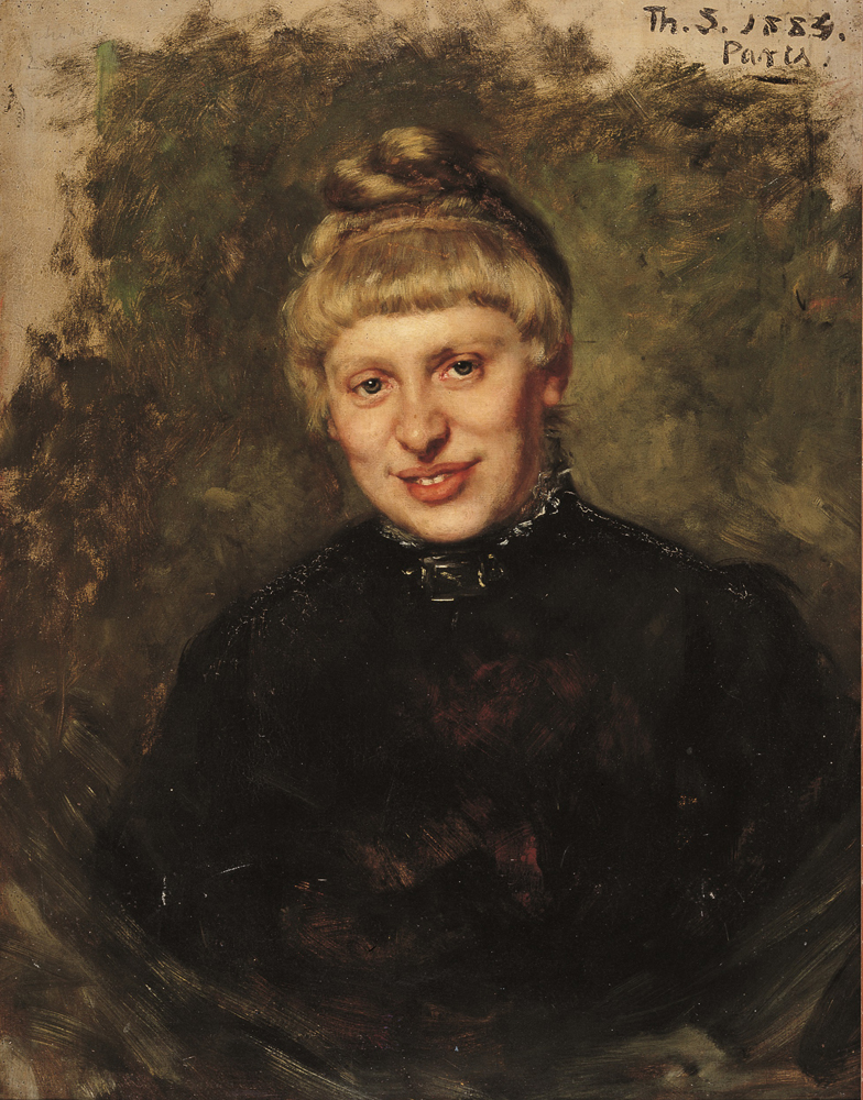 Portrait of the artist Wally Moes